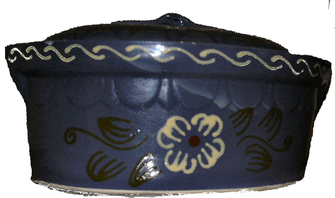 baeckeoffe